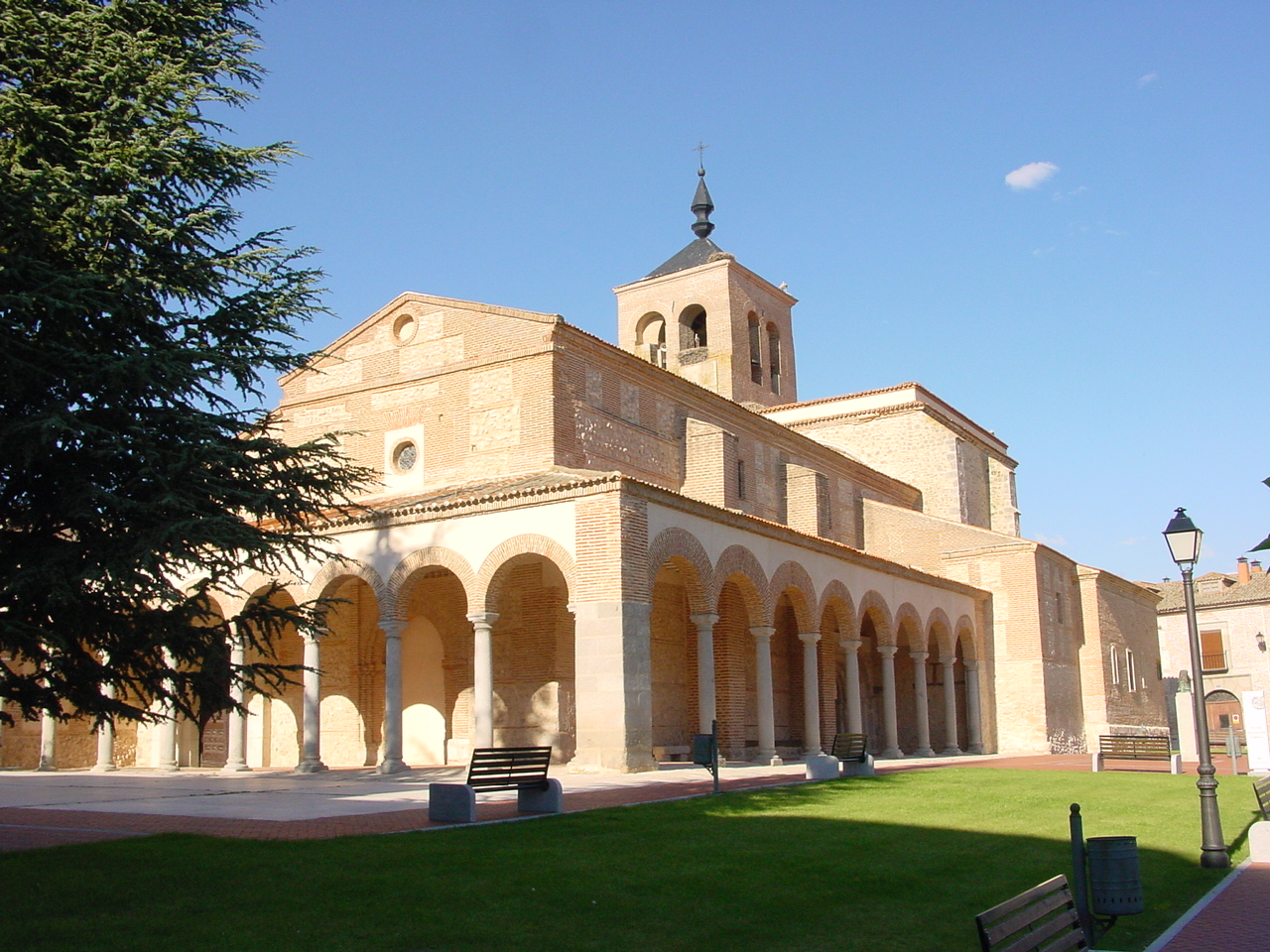 Church of Santa María del Castillo in Olmedo, Valladolid, Spain.